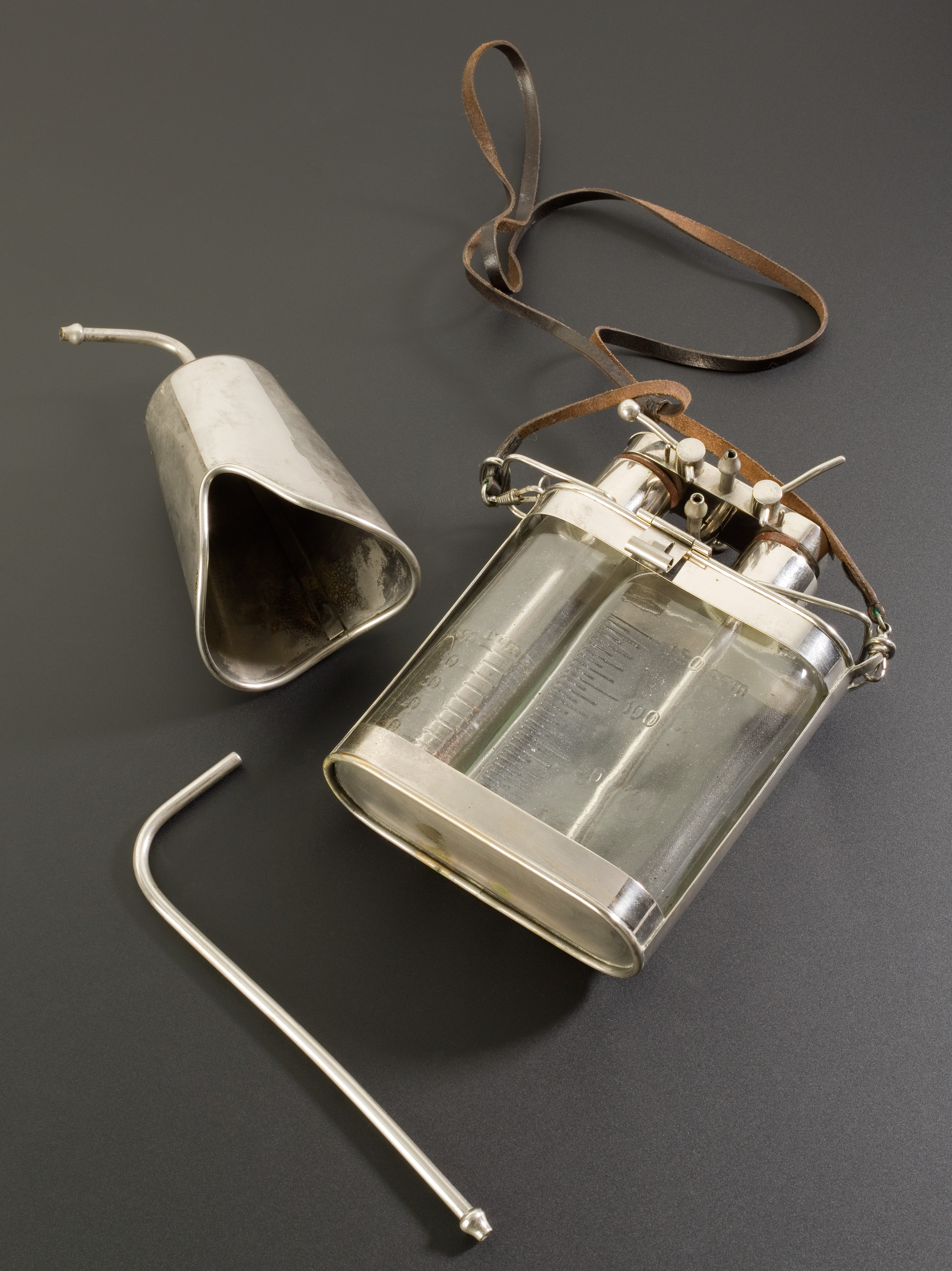 Braun ether and chloroform inhaler, Germany, 1901-1940 Devised in 1901 by Heinrich Braun (1862-1934), a German physician and surgeon, this inhaler uses chloroform and/or ether to numb patients for surgery. The scale moulded on to the side of the glass was used to control how much anaesthetic the patient received, whereas the taps at the top controlled how much air is mixed with the ether and chloroform. The face mask where vapours were inhaled would have been connected using rubber tubing. Made by German company Narco, this example was owned and used from 1910 to 1940 by a Dr J D Whitney, who was based in London. Medical Photographic Library